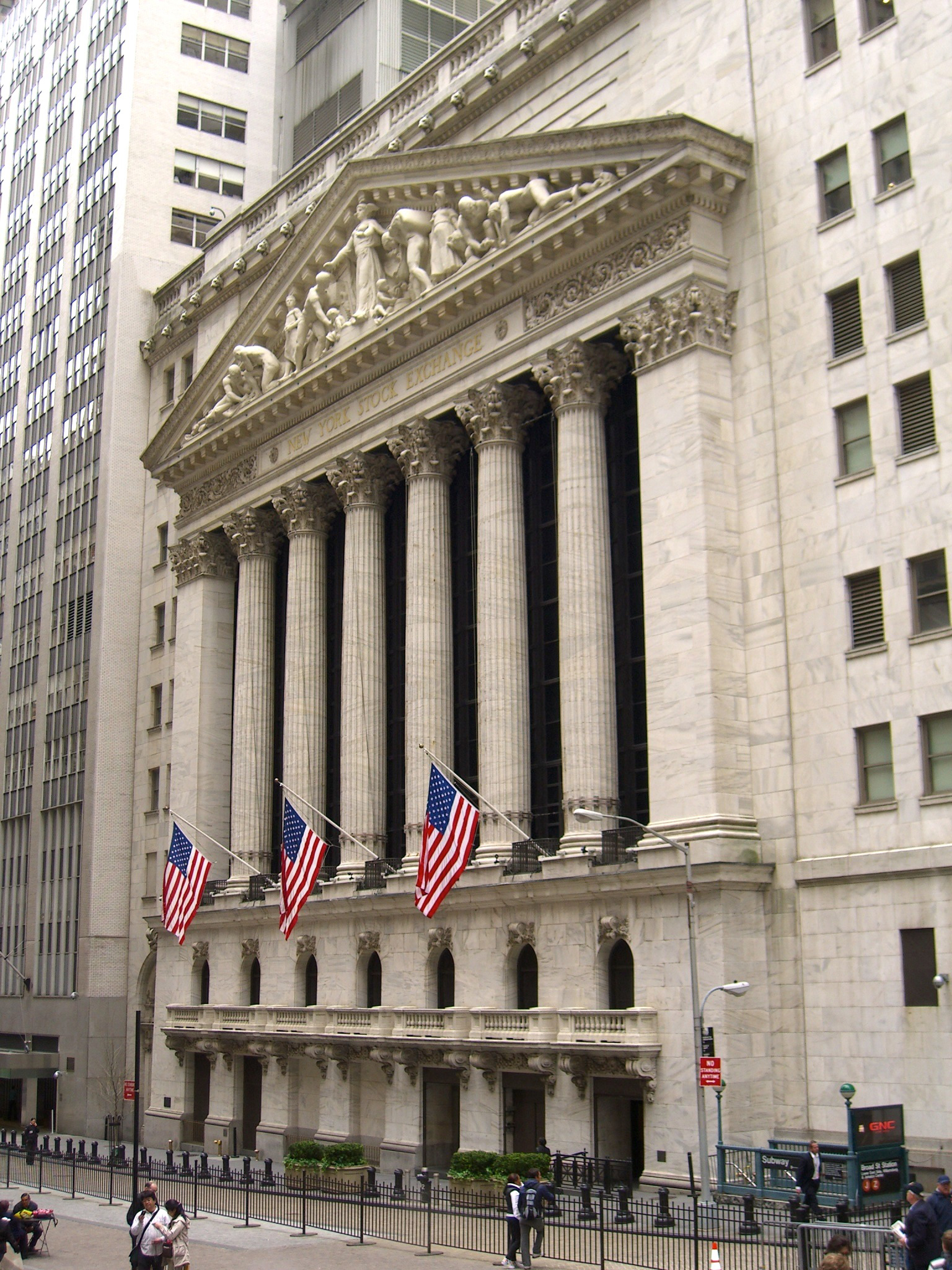 The New York Stock Exchange, photographed on May 2, 2011. Photographed by Luigi Novi. This photo is not in the public domain. It may, however, be used, modified and published for any purpose, free of charge, only if the photographer is properly credited, either by linking the photograph to this page, or with an easily visible credit to the photographer placed near the photo in each instance in which it is used. (See licensing information below.) Publication of this photo without this proper attribution constitutes copyright infringement. If you have any questions, you can contact me on my Wikipedia Talk Page.